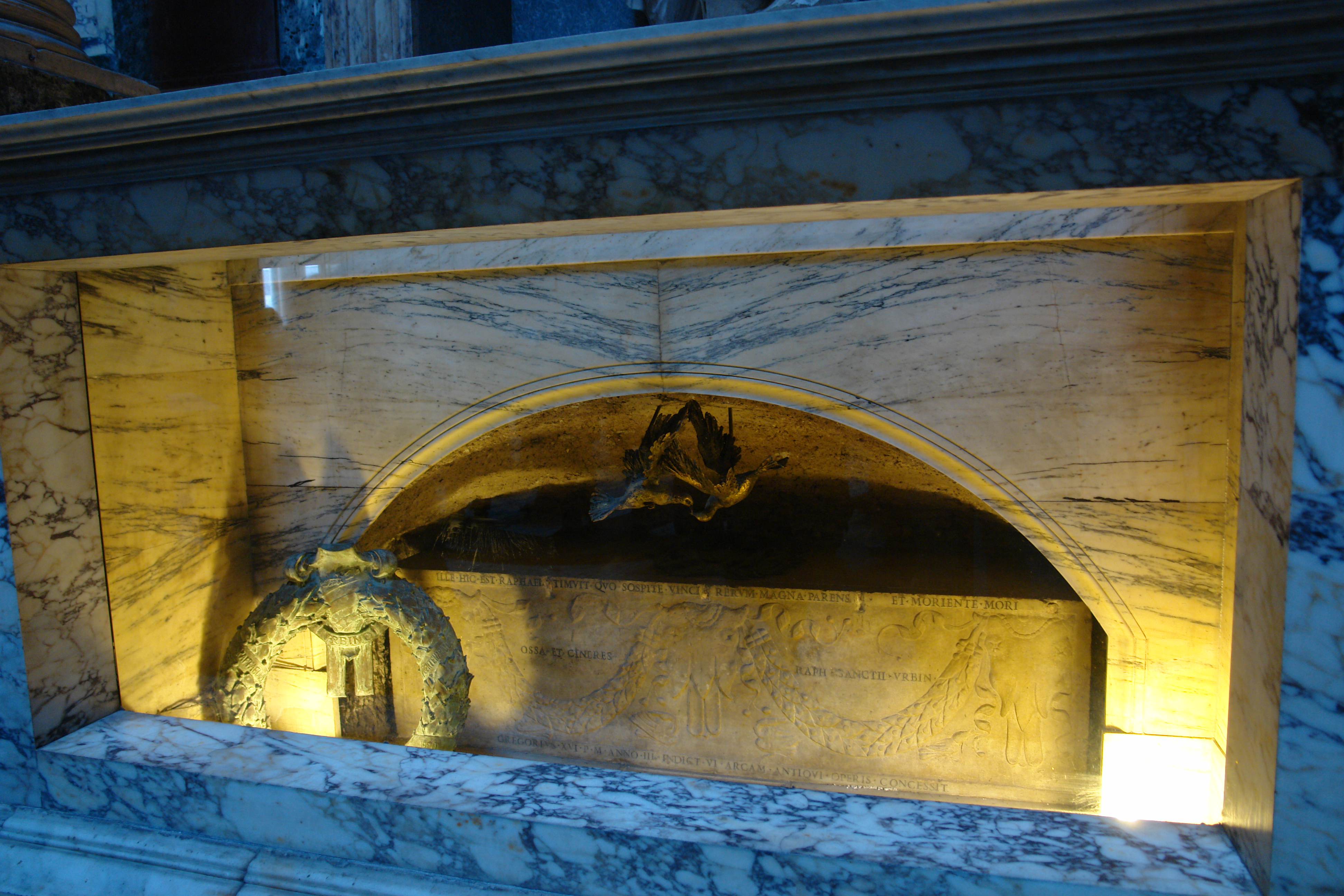 Grave of Raphael inside the Patheon in Rome